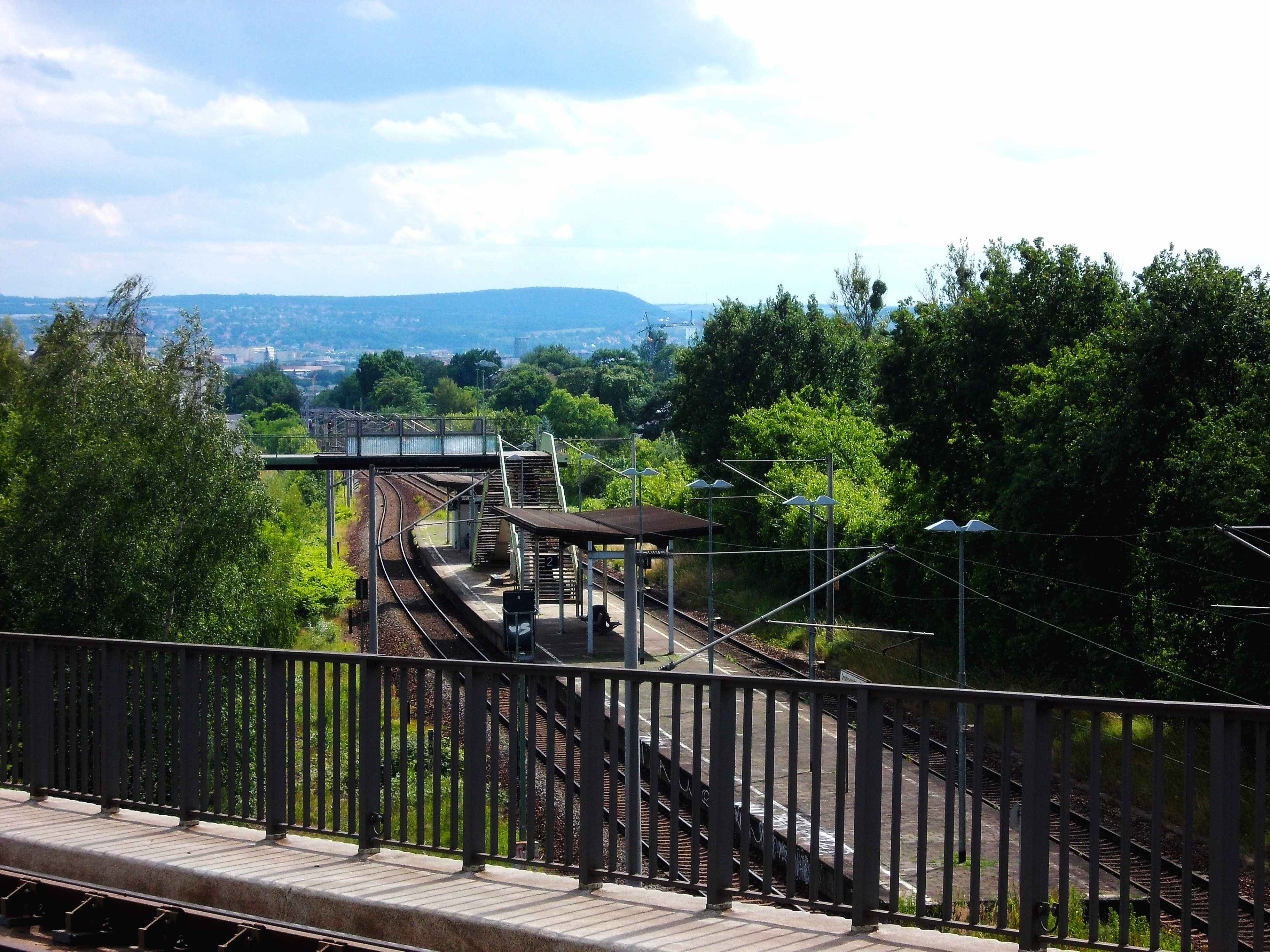 Dresden Industriegelände railway station along Görlitz–Dresden railway line: View towards south as seen from the road bridge (Königsbrücker Straße) across the railway line